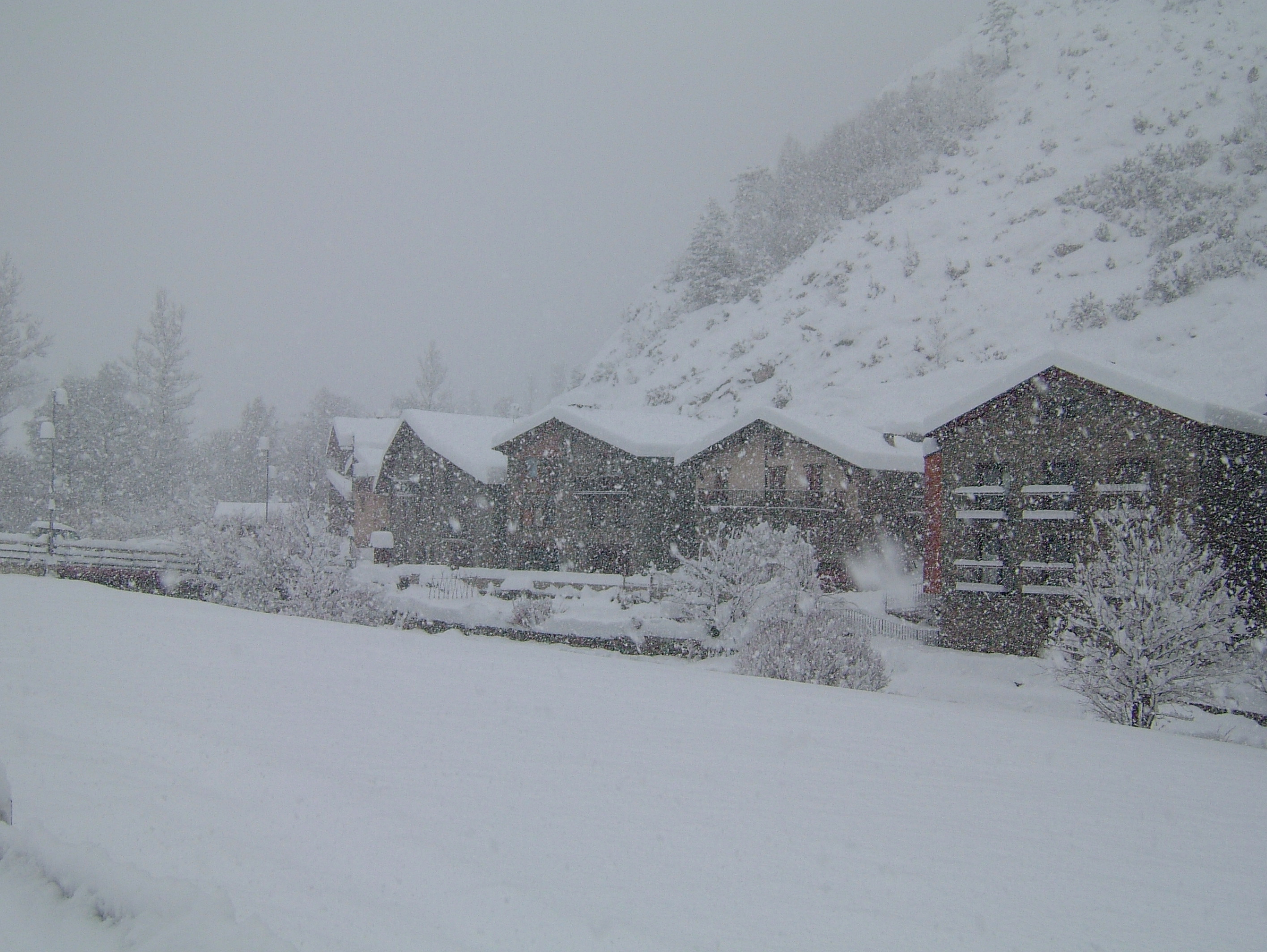 Ansalonga (Ordino, Andorra) village picture snowing.